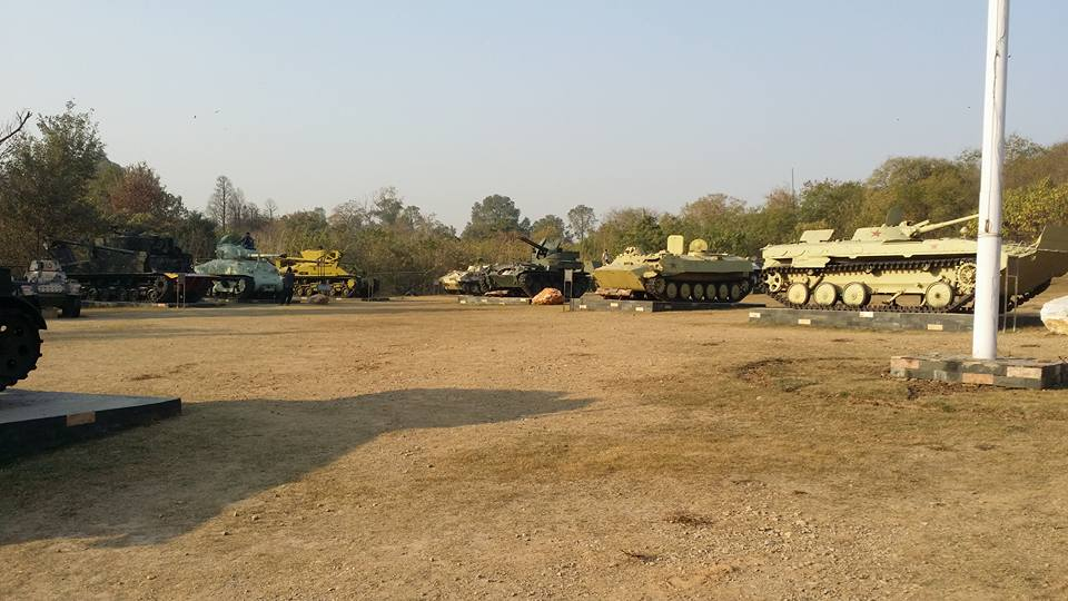 Ayub national park old tank